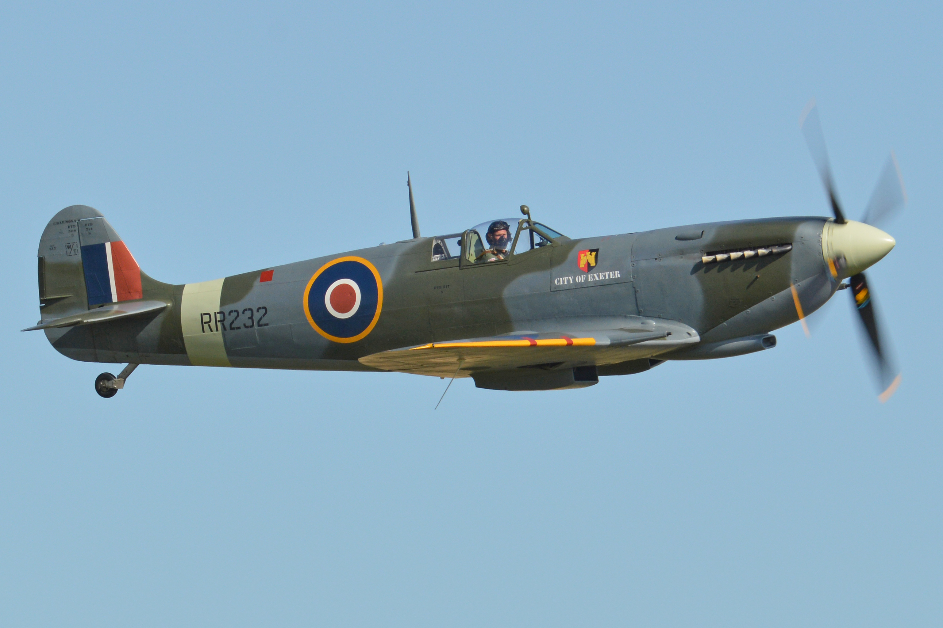 c/n unknown. British military serial RR232. Saw postwar South African Air Force service between 1949 and 1954 with the serial 5632. Recovered from a scrapyard in 1968, she became a spares source for the restoration of Spitfire MA793. By 1976 she had moved to Australia and was under restoration herself, using the wings of RM873 and the tailplane of JG432. Moving to the UK in 1986, she finally flew again in December 2012. She is seen here at the 2017 Flying Legends Airshow, Duxford Airfield, Camabridgeshire, UK. 8th July 2017.